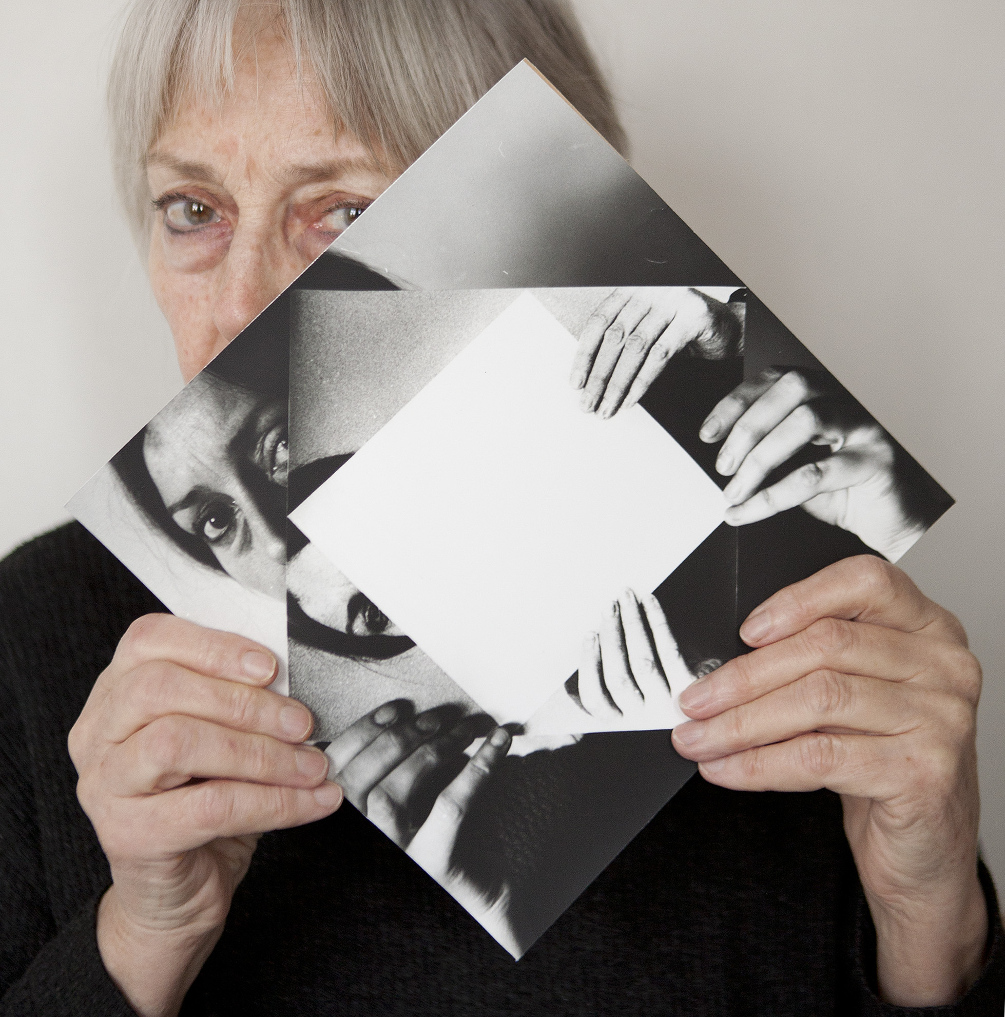 Self portrait of the artist taken by Évi Fábián